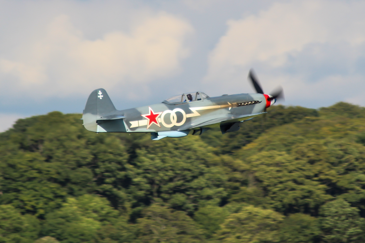 Aircraft taking part in the Scottish International Airshow 2017 seen at Prestwick Airport